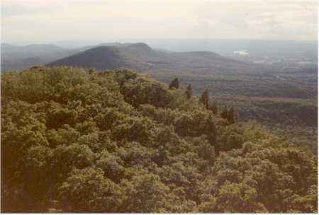 View from Mount Norwottuck. 1989. by Paul Gagnon. for Holyoke Range.